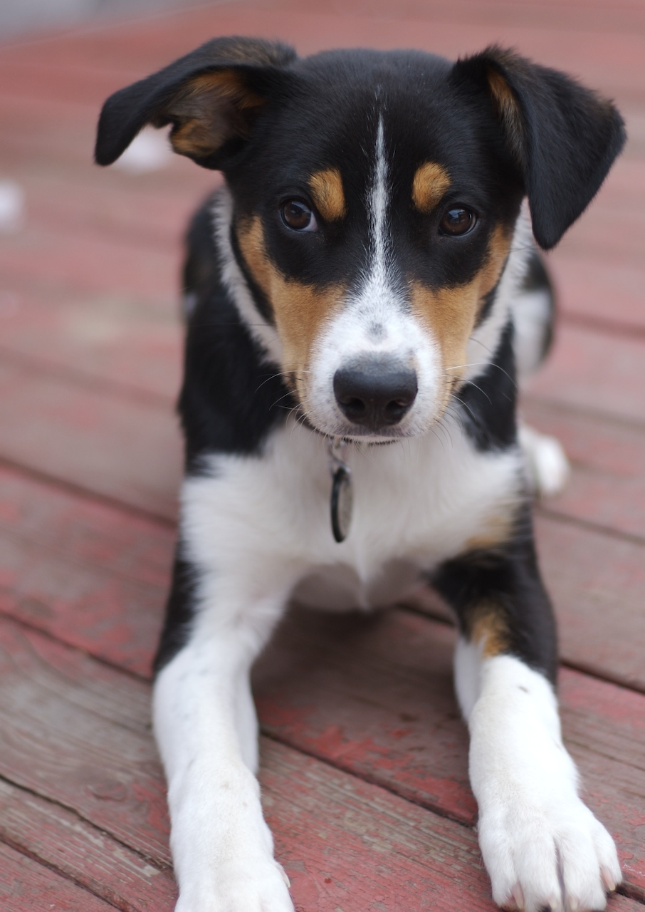 A male tricolour smooth-coat Border Collie puppy.